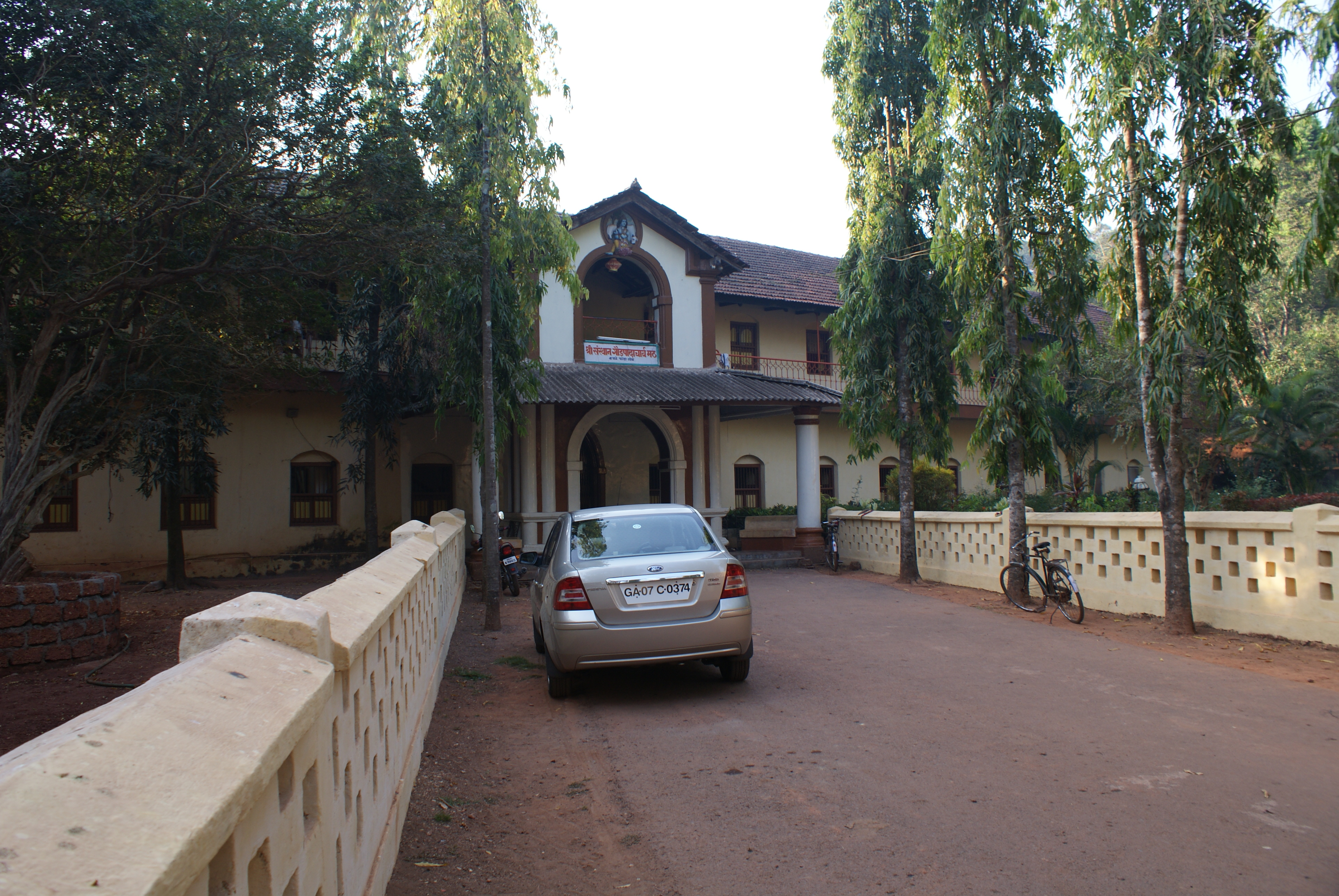 Kavale mutt building at Kavale, Ponda, Goa.